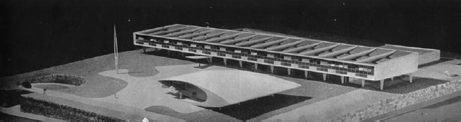 Maquete do Colégio Estadual Central, Atual Colégio Governador Milton Campos, em Belo Horizonte.